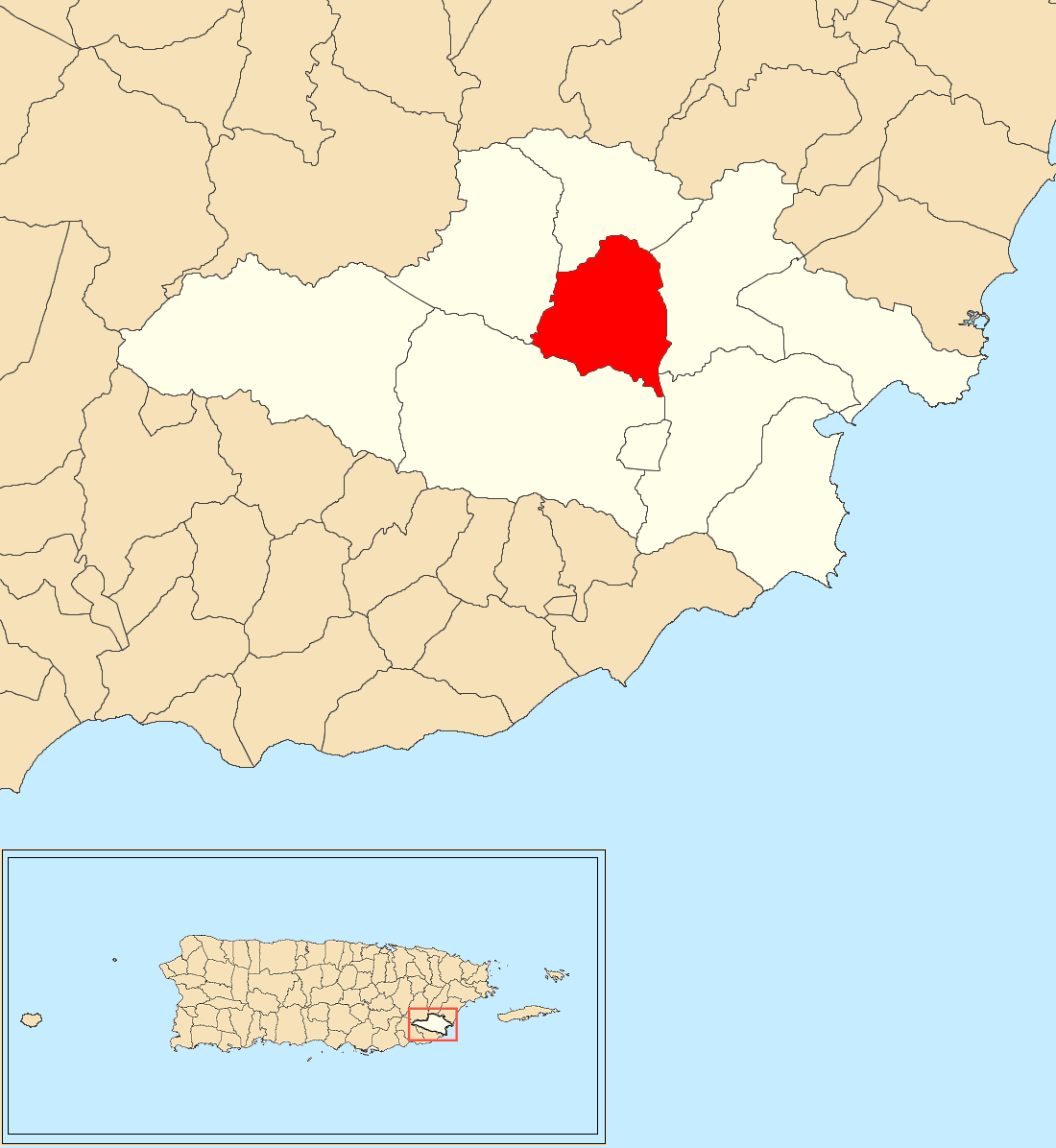 Limones, Yabucoa, Puerto Rico locator map